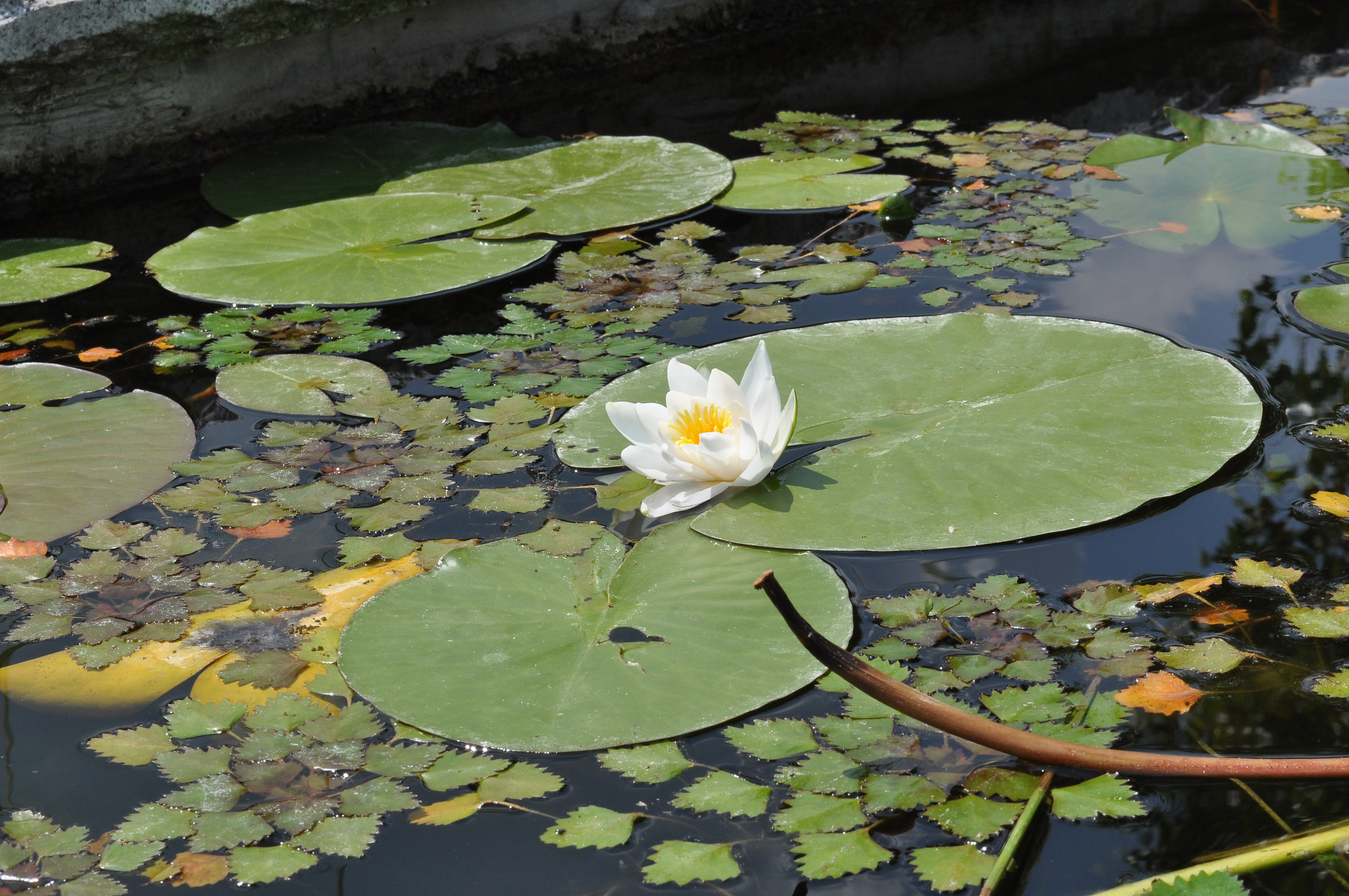 European white water-lily (Nymphaea alba), Arboretum in Bolestraszyce, Poland